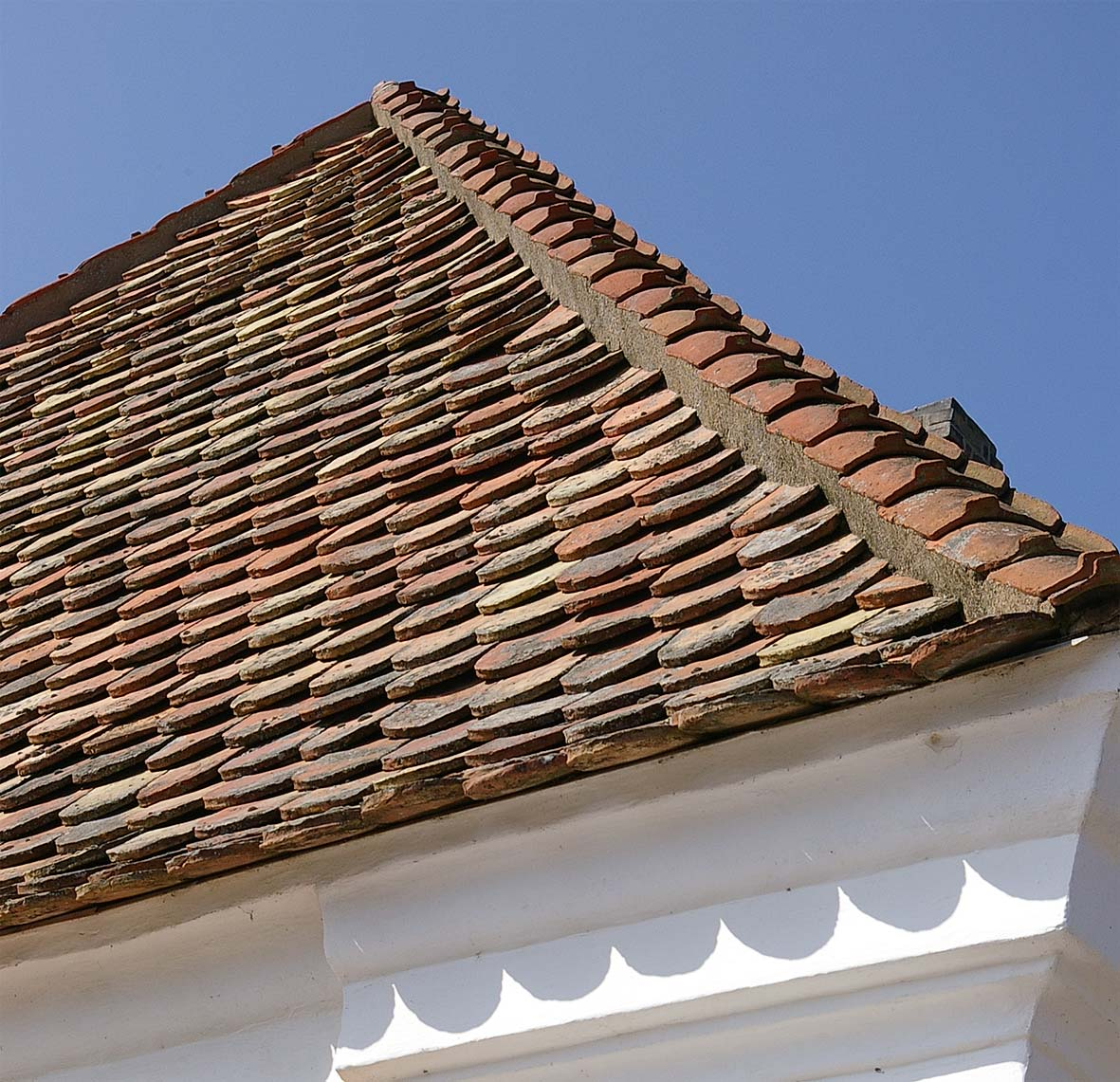 The town hall of Skanör Sweden from 1777.